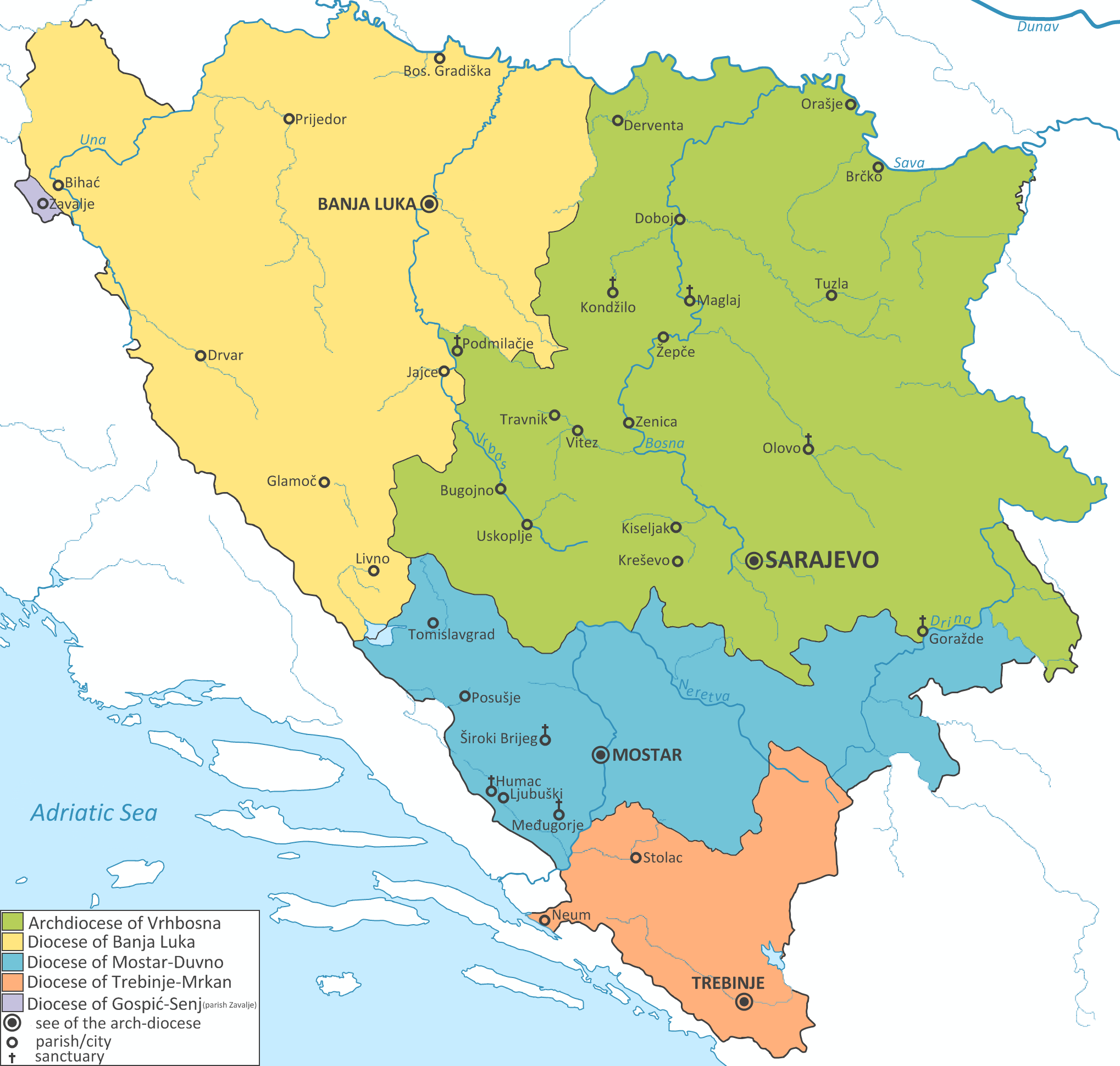 Map of Roman Catholic Dioceses in Bosnia and Herzegovina (English version): Archdiocese of Vrhbosna Diocese of Banja Luka Diocese of Mostar-Duvno Diocese of Trebinje-Mrkan Diocese of Gospić-Senj